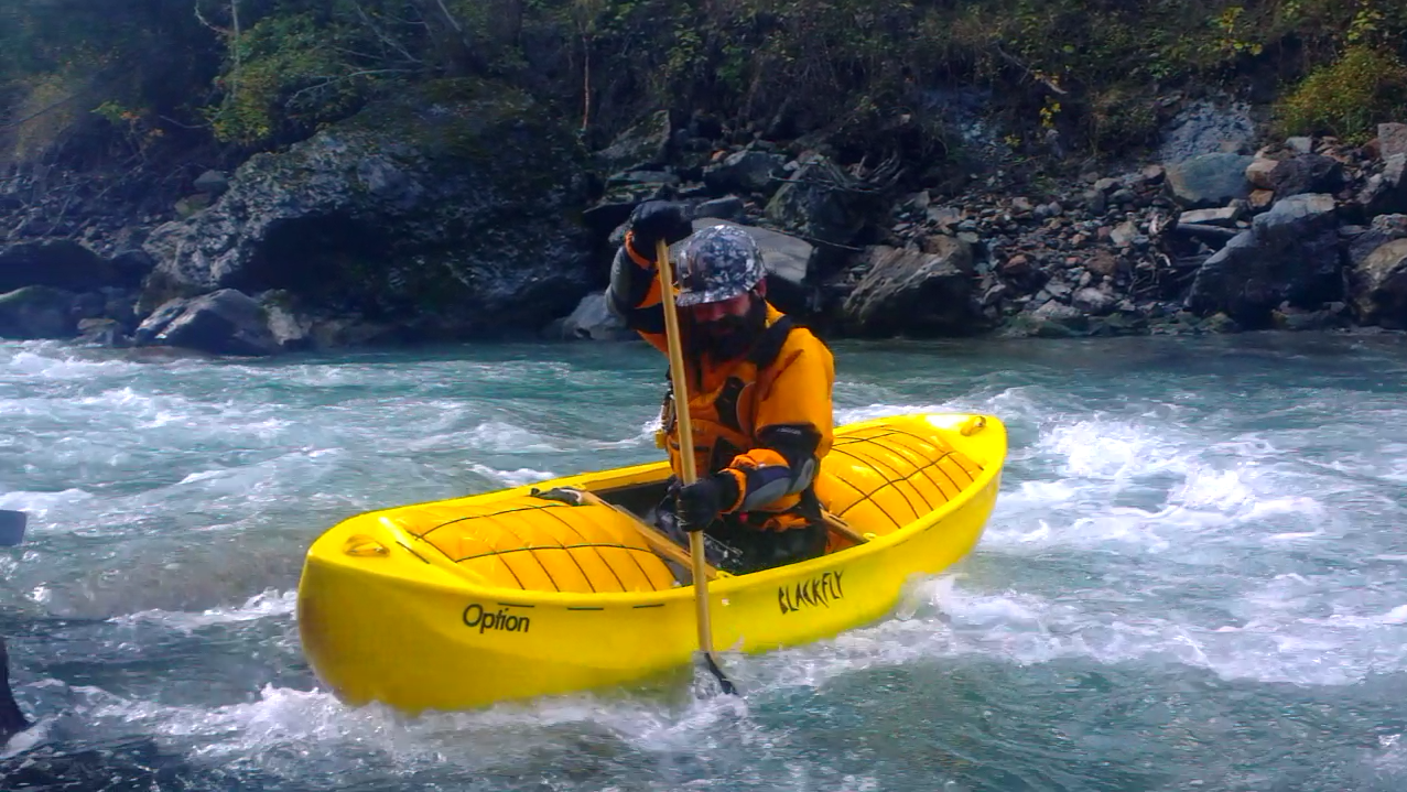 WW Open Canoeing - Paddler on the Inn River, "Giarsun" Section, WW III-IV; paddling an 2013 model of Open Canoe, the "Option" made by Blackfly Canoes out of Polyethylene, a boat suitable for steep creeking and river running.